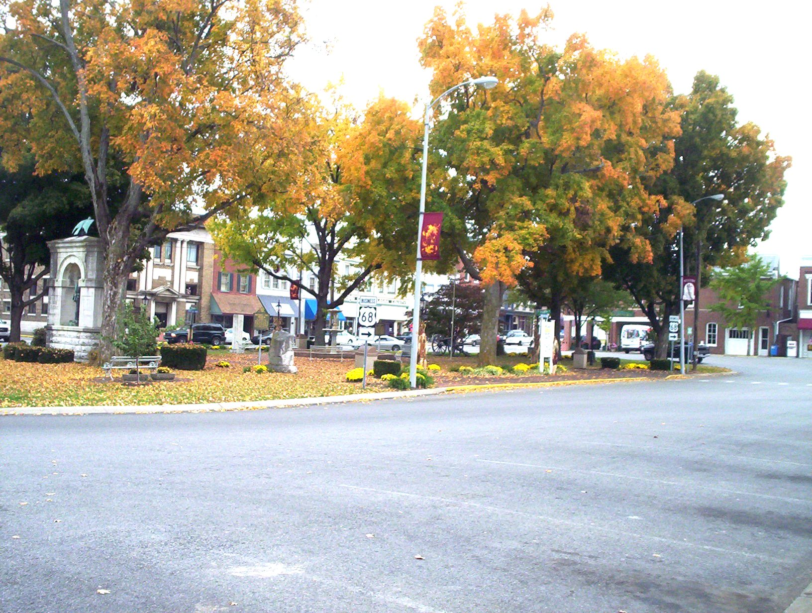 CONFEDERATE PARK